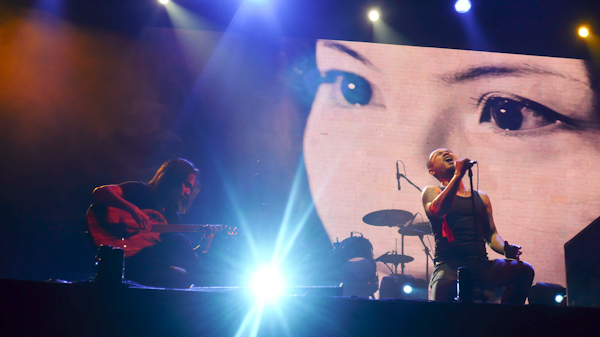 A concert of a Vietnamese metal band Bức Tường